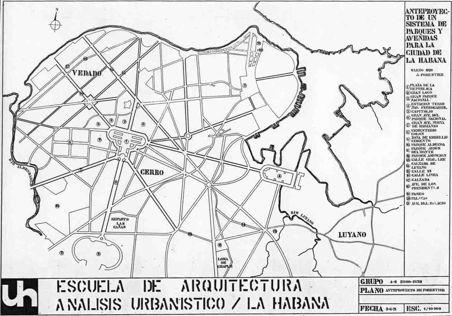 Design of la Habana city map, by JCN Forestier (1925). He died in 1930